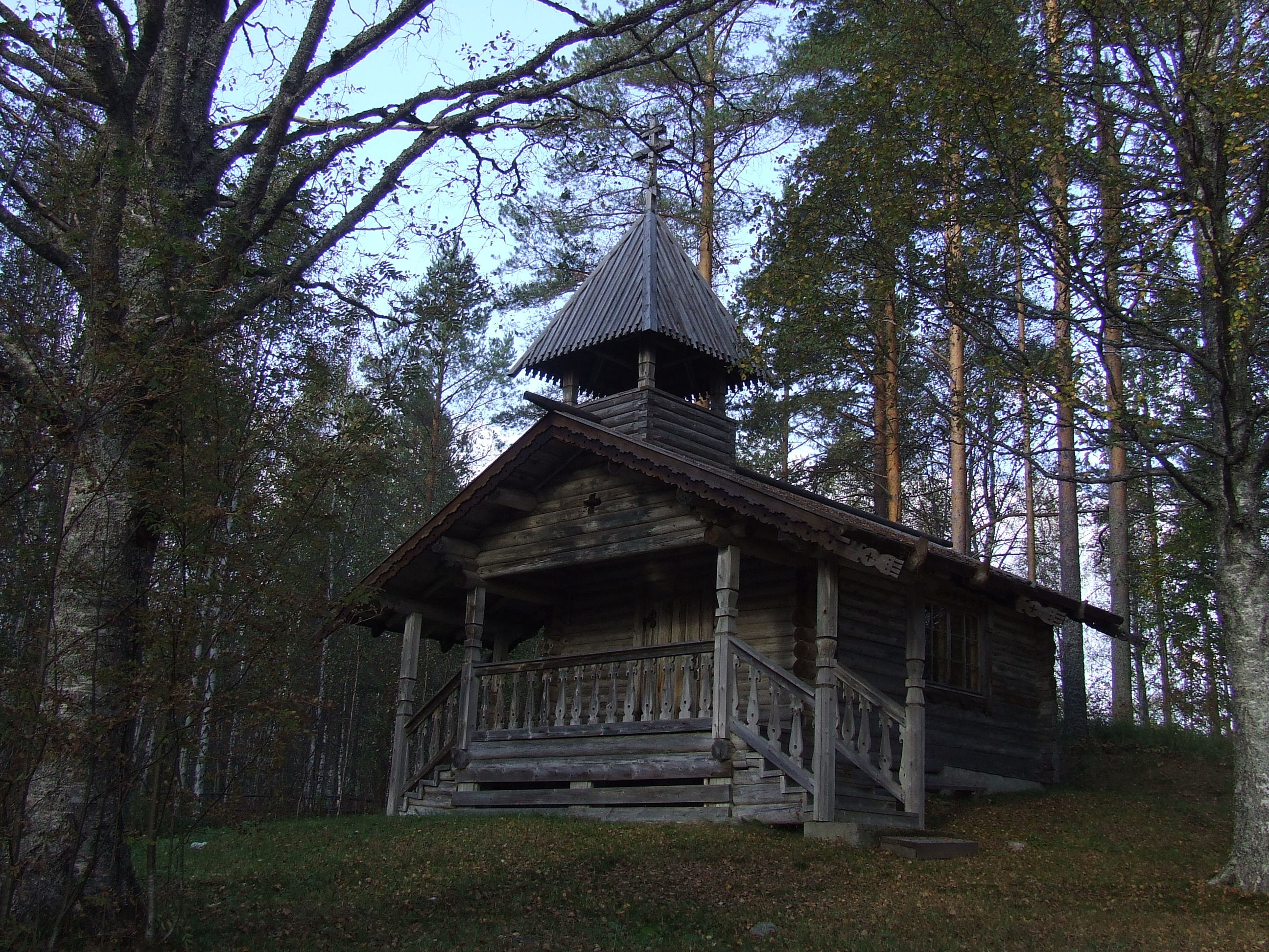 Saarivaara orthodox chapel in Joensuu, Finland.